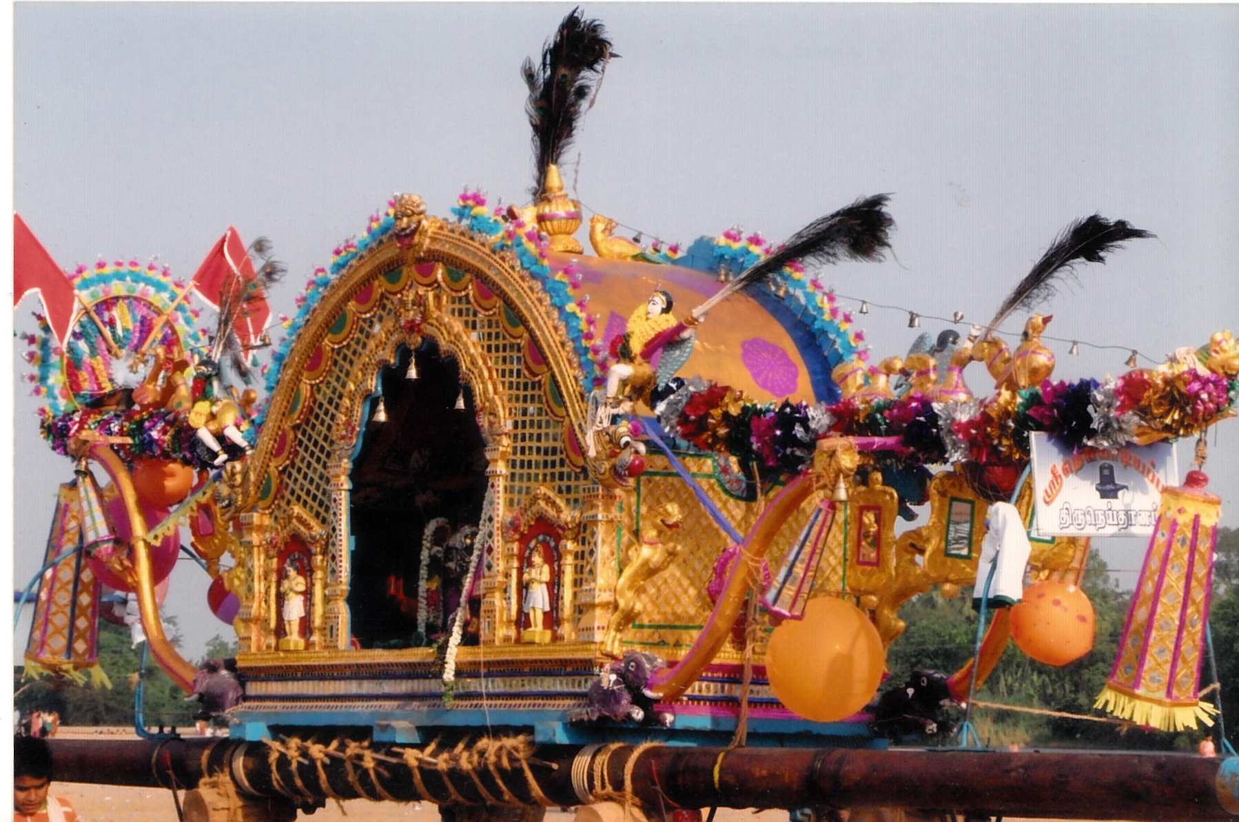 தில்லைஸ்தானம் பல்லக்கு, திருவையாறு சப்தஸ்தான விழா